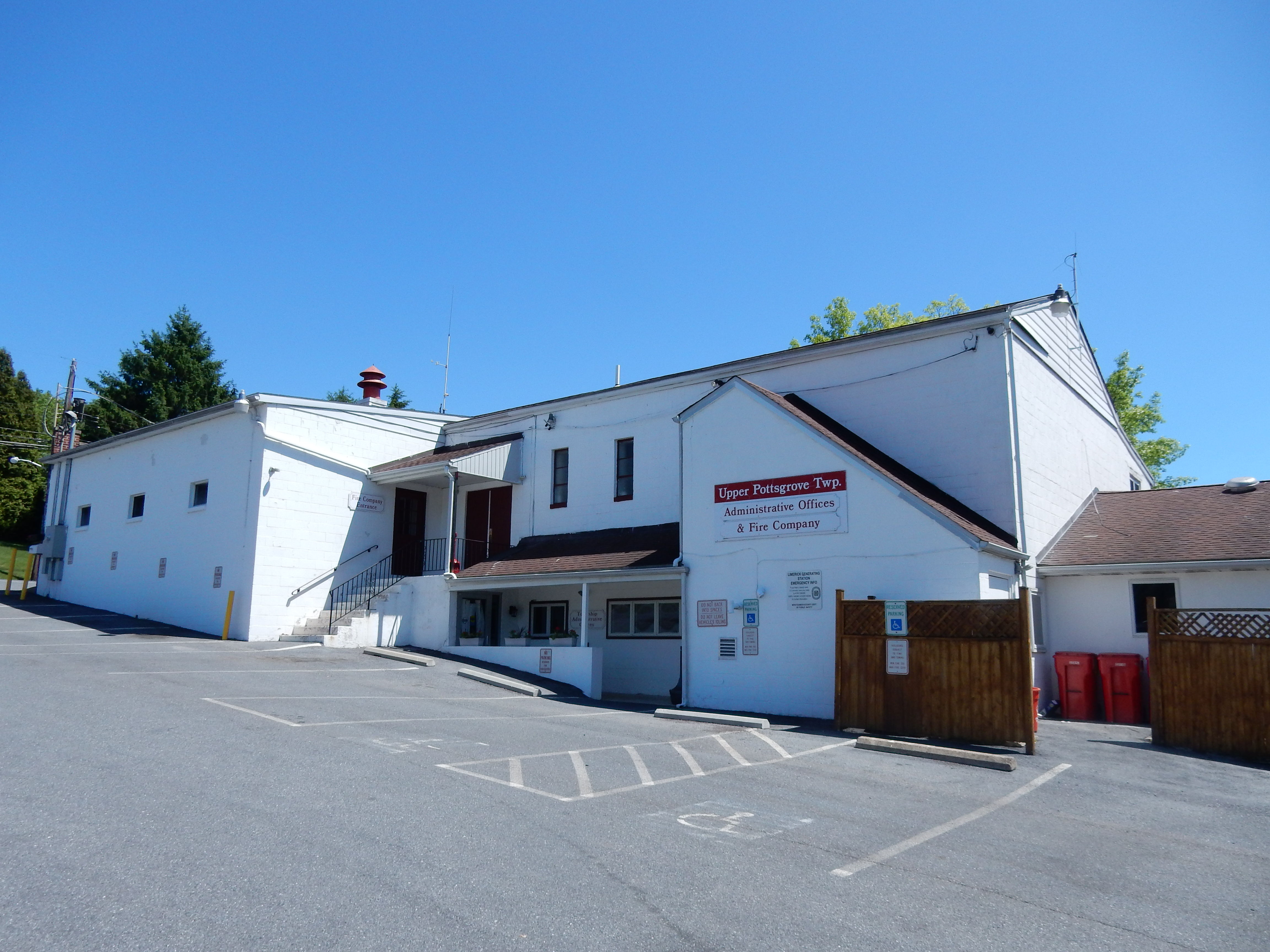 Upper Pottsgrove Township. Administrative Offices and Fire Co., 1409 Farmington Avenue, Pottstown, PA.